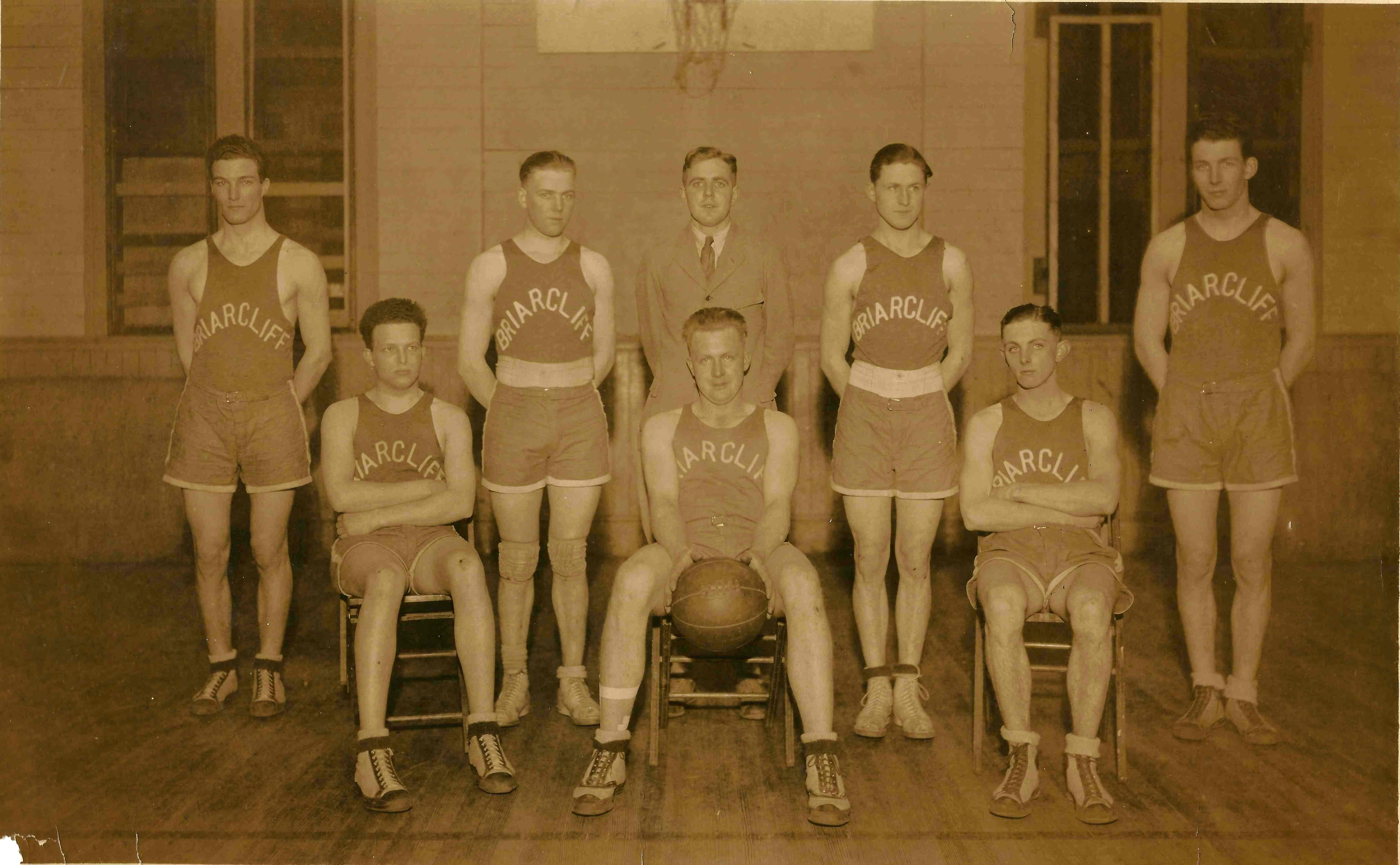 This is an image of the Briarcliff Manor Fire Department basketball team.